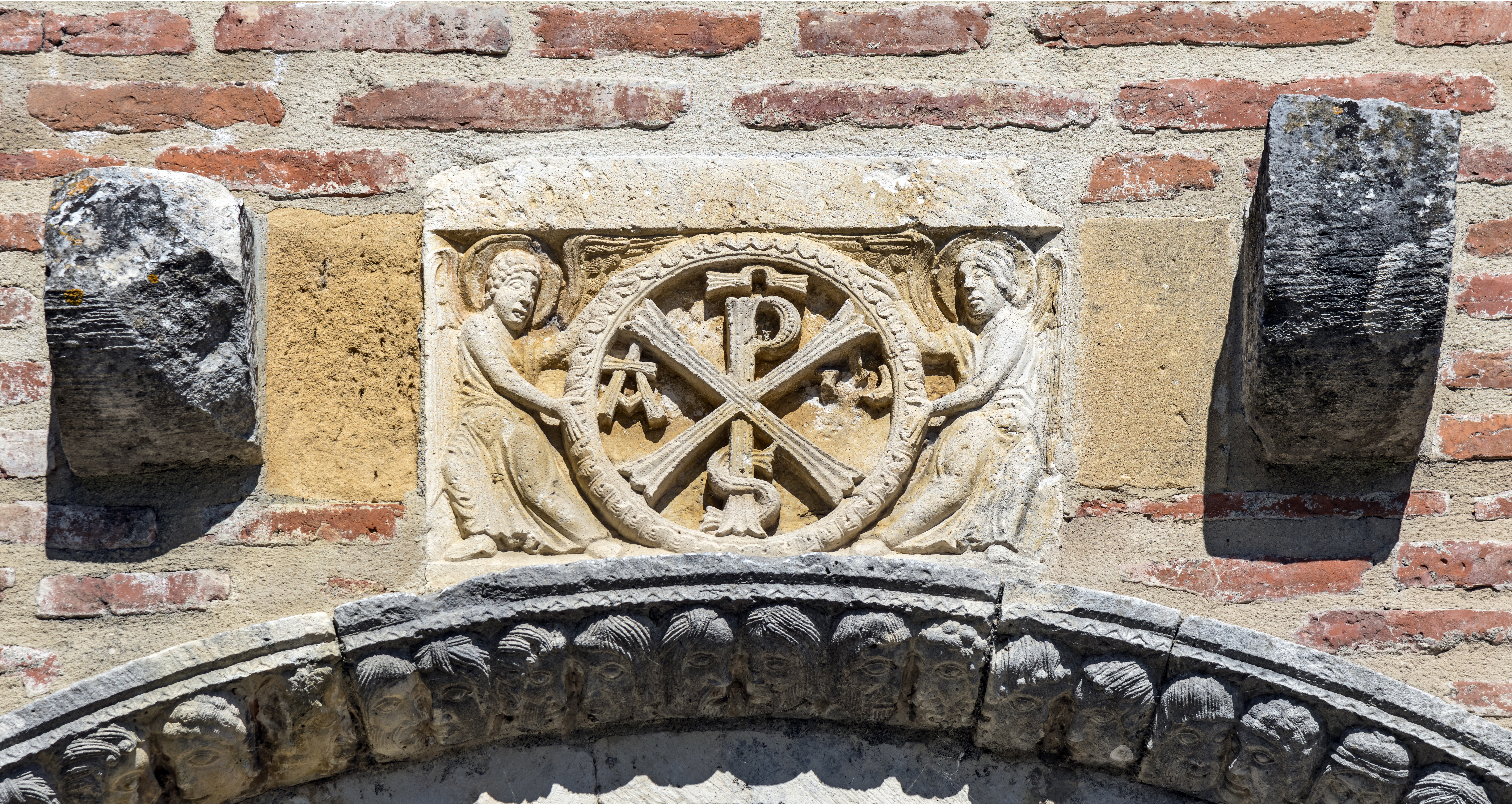 Chi Rho on façade a of the Saint-Christophe-des-Templiers church, twelfth century.; a templar church located in Montsaunes, in Occitanie France.